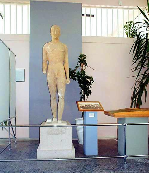 Kouros of Evropos, image from the Archaeological Museum, Kilkis, Central Macedonia, Greece